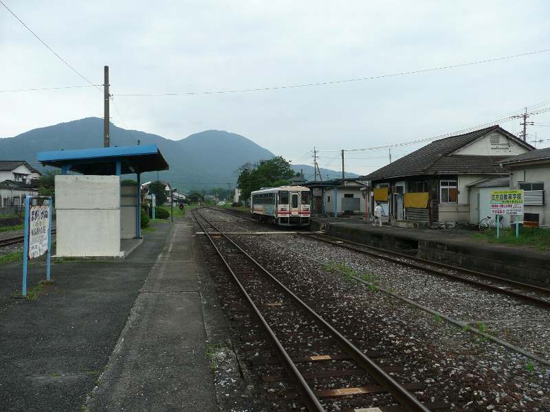 Magarikane station